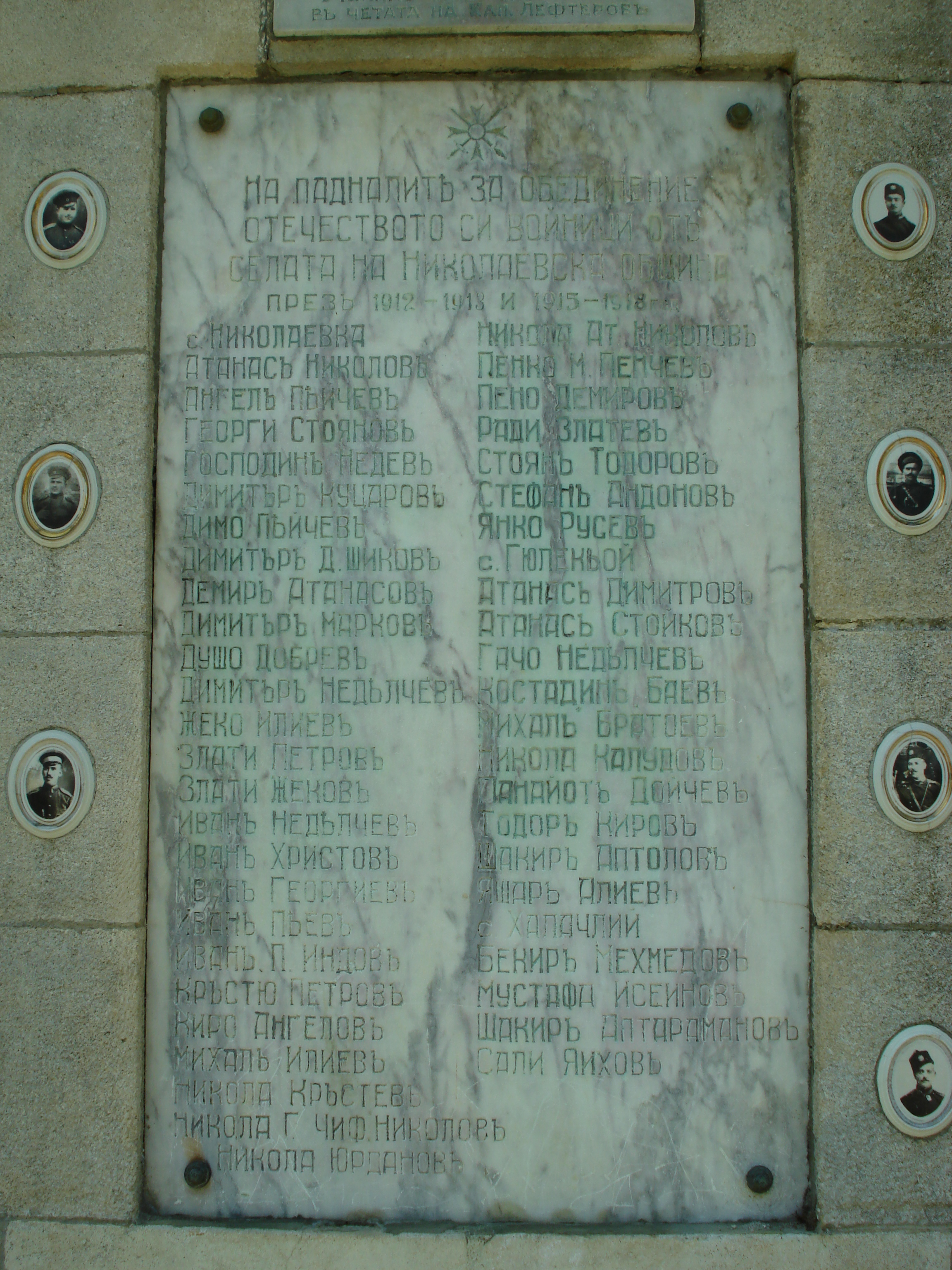 Snimka ot Nikolaevka